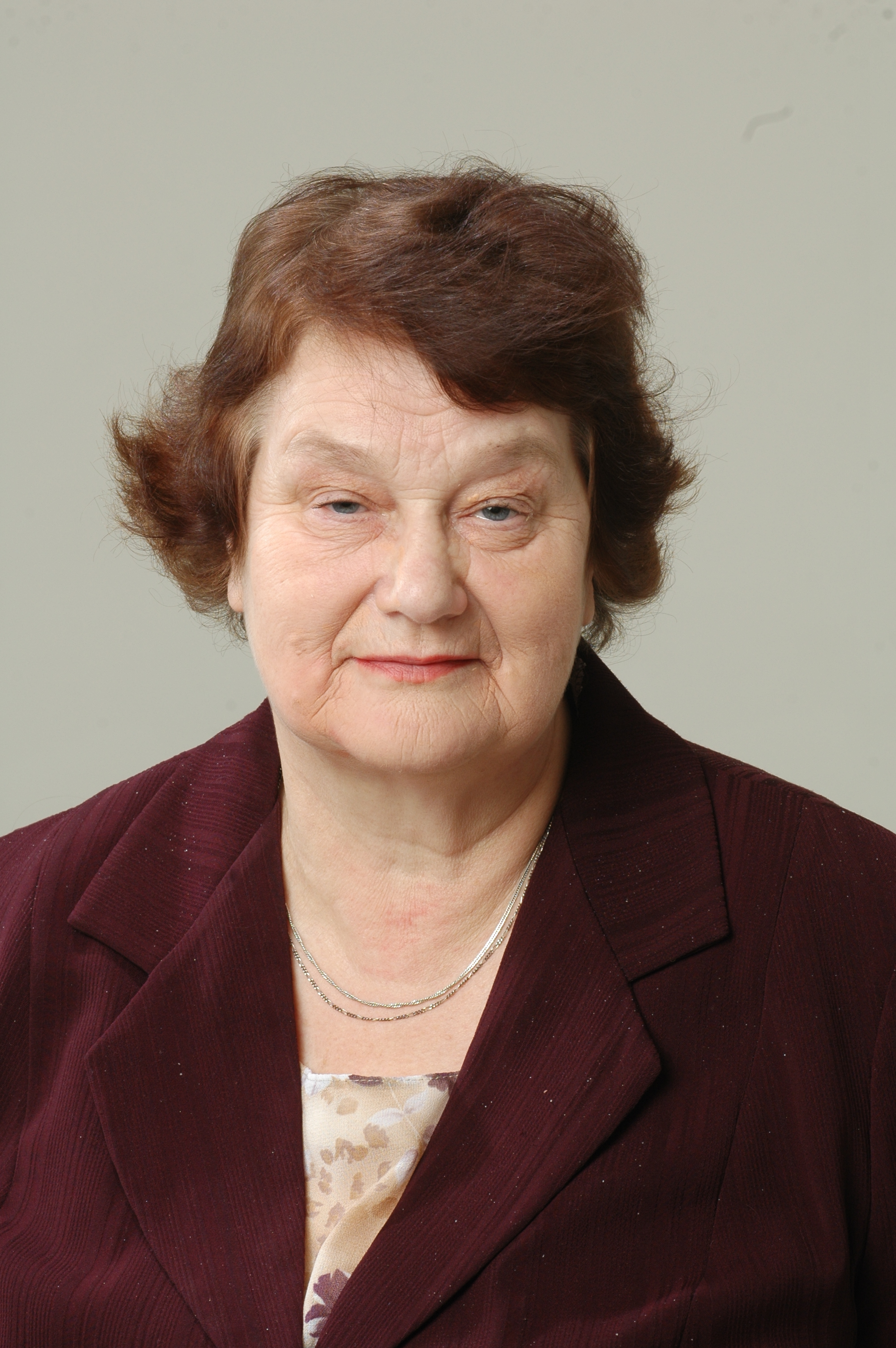 Deputy of the 9th Saeima Anna Seile